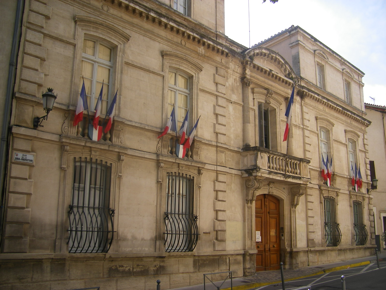 Carpentras - Subprefecture